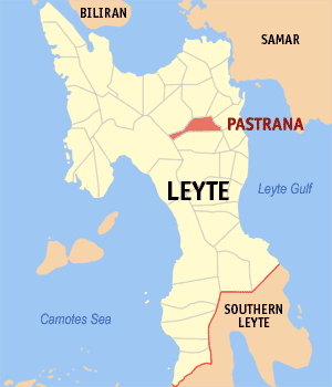 Map of Leyte showing the location of Pastrana